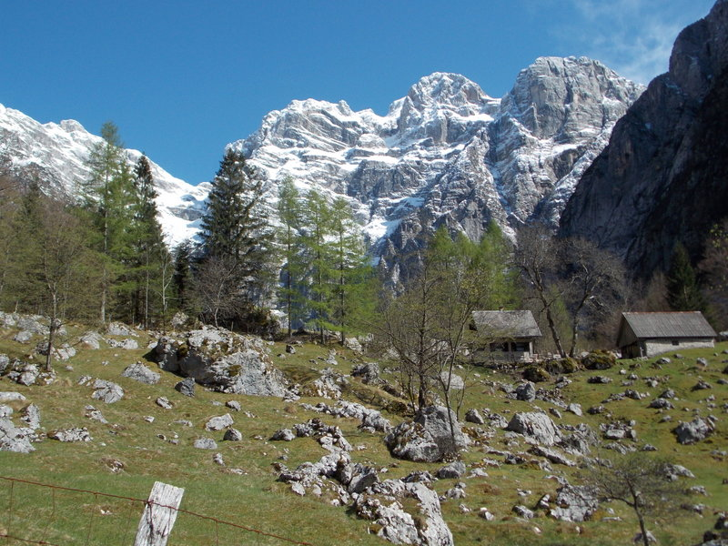 Zadnjica valley, Julian Alps, Slovenia